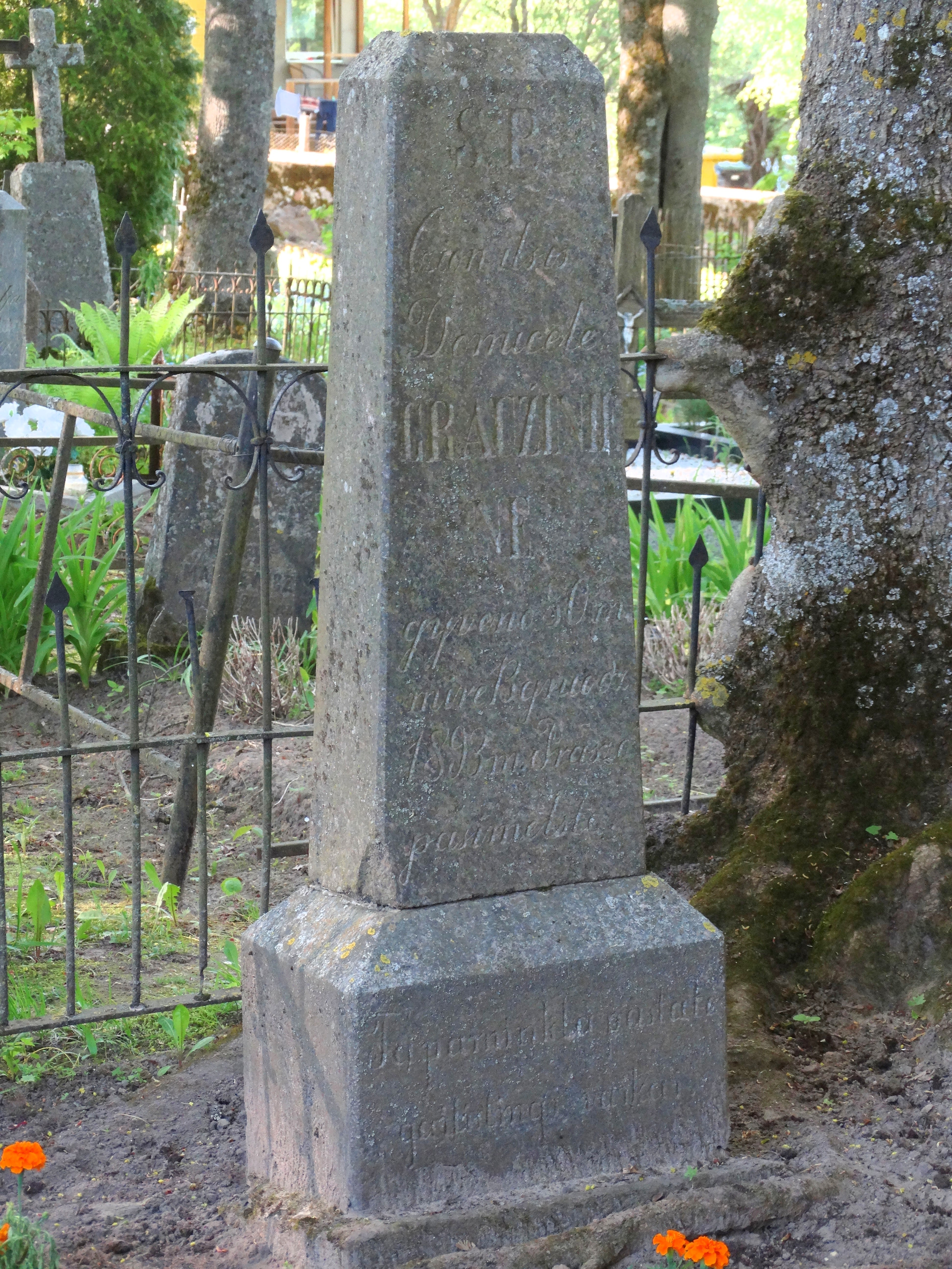 Graužiniai family chapel, tomb, Giedraičiai, Molėtai district, Lithuania